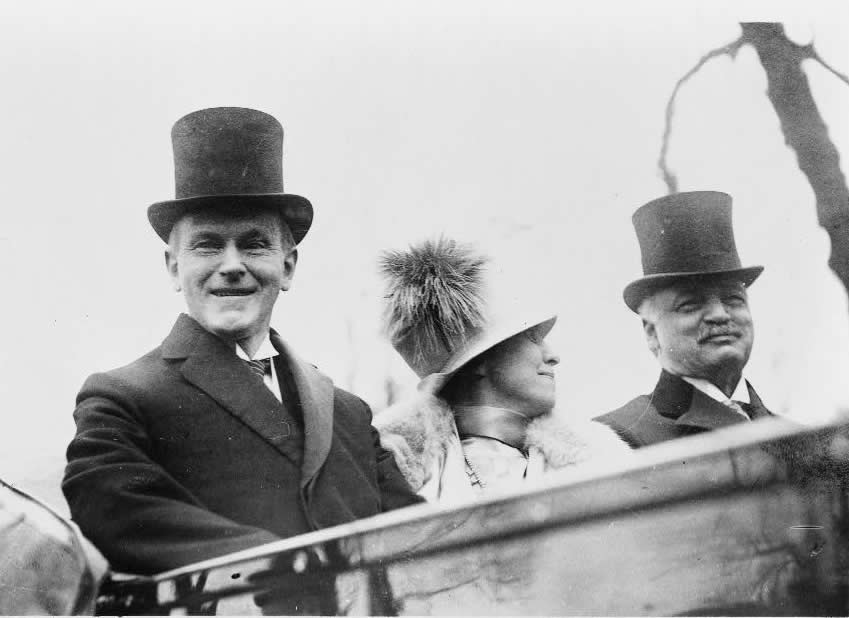 President Calvin Coolidge, Mrs. Coolidge and Senator Curtis. From the Library of Congress, Prints & Photographs Division, part of the National Photo Company collection.